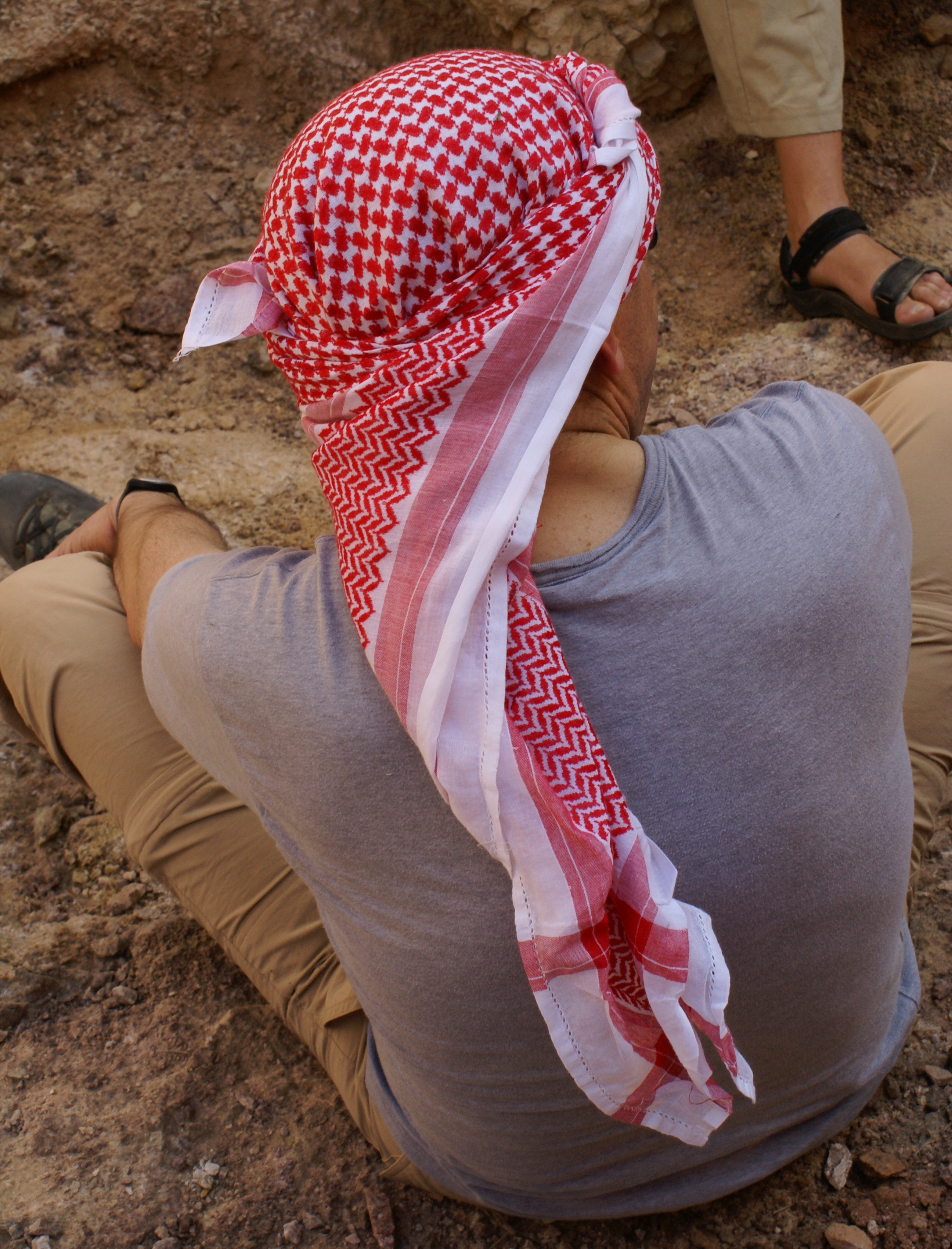 A man wearing a white and red checkered Keffiyeh in a turban manner commonly used by the Bedouins on the Sinai Peninsula with a long tail to the back.